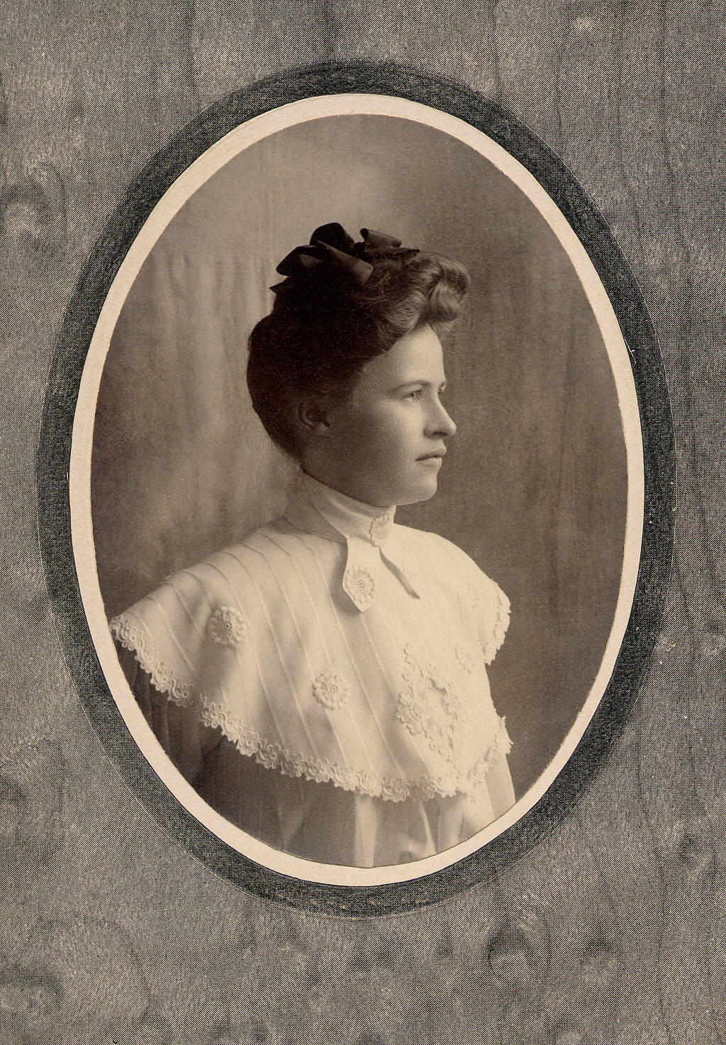 A photograph of Hattie Bartholomay (Harriet Eliza Ross Mansfield Bartholomay Bruckman) (1875-1954) taken in 1895. I have the original. It appears to be a studio photograph but there is no information about the photographer or studio. The photo was most likely taken in Albany, Oregon.